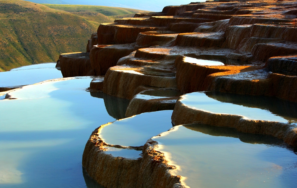 Badab-e Surt (Persian: باداب سورت) is a natural site in Mazandaran Province in northern Iran, 95 kilometers South of city of Sari, and 7 kilometers west of Orost village. It comprises a range of stepped travertine terrace formations that has been created over thousands of years as flowing water from two mineral hot springs cooled and deposited carbonate minerals on the mountain side